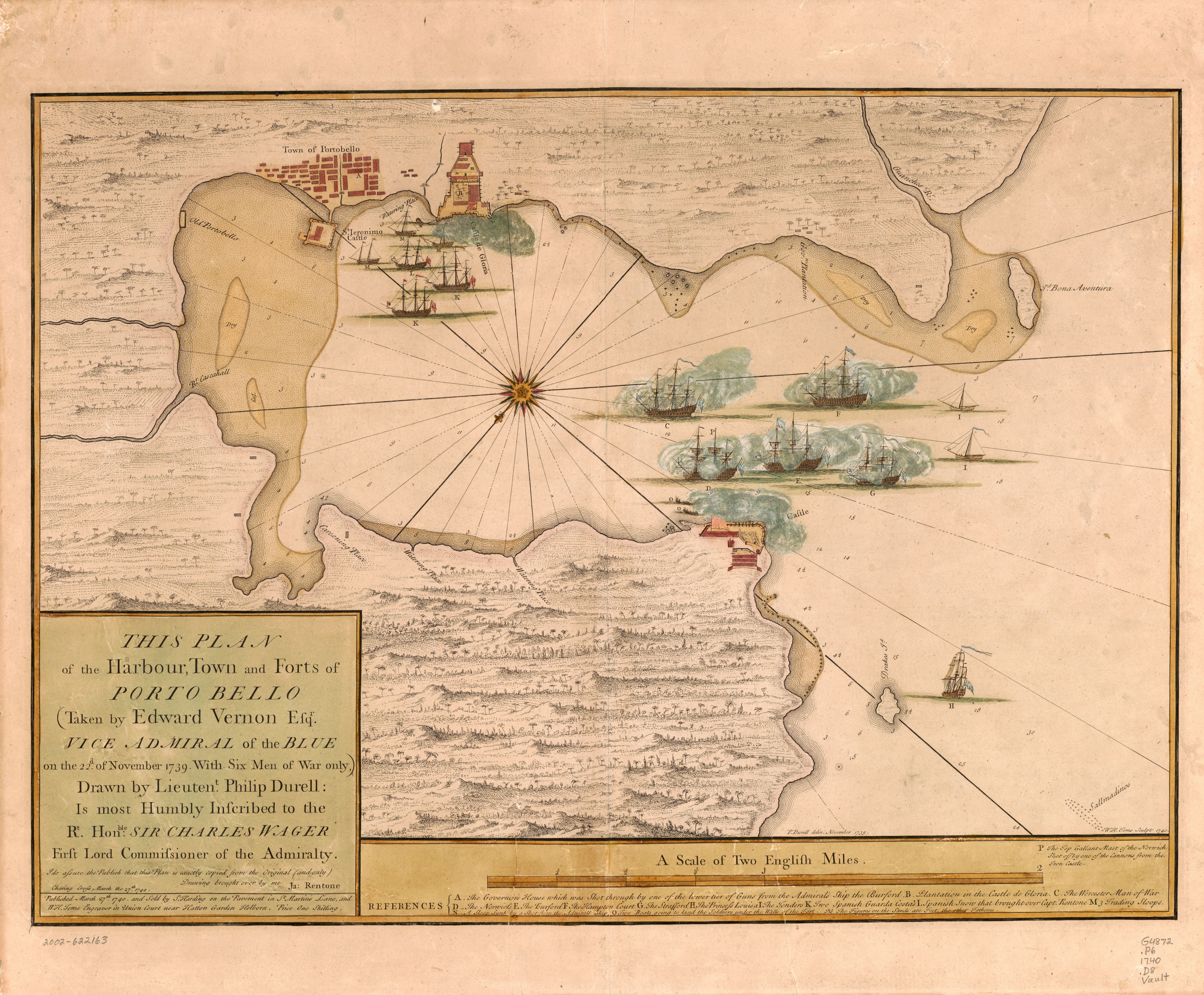 Relief shown pictorially. Depths shown by soundings. "Published March 27th, 1740 ..." Oriented with north toward the lower left. Includes index and ill. Available also through the Library of Congress Web site as a raster image. Acquisitions control no. 2000-25